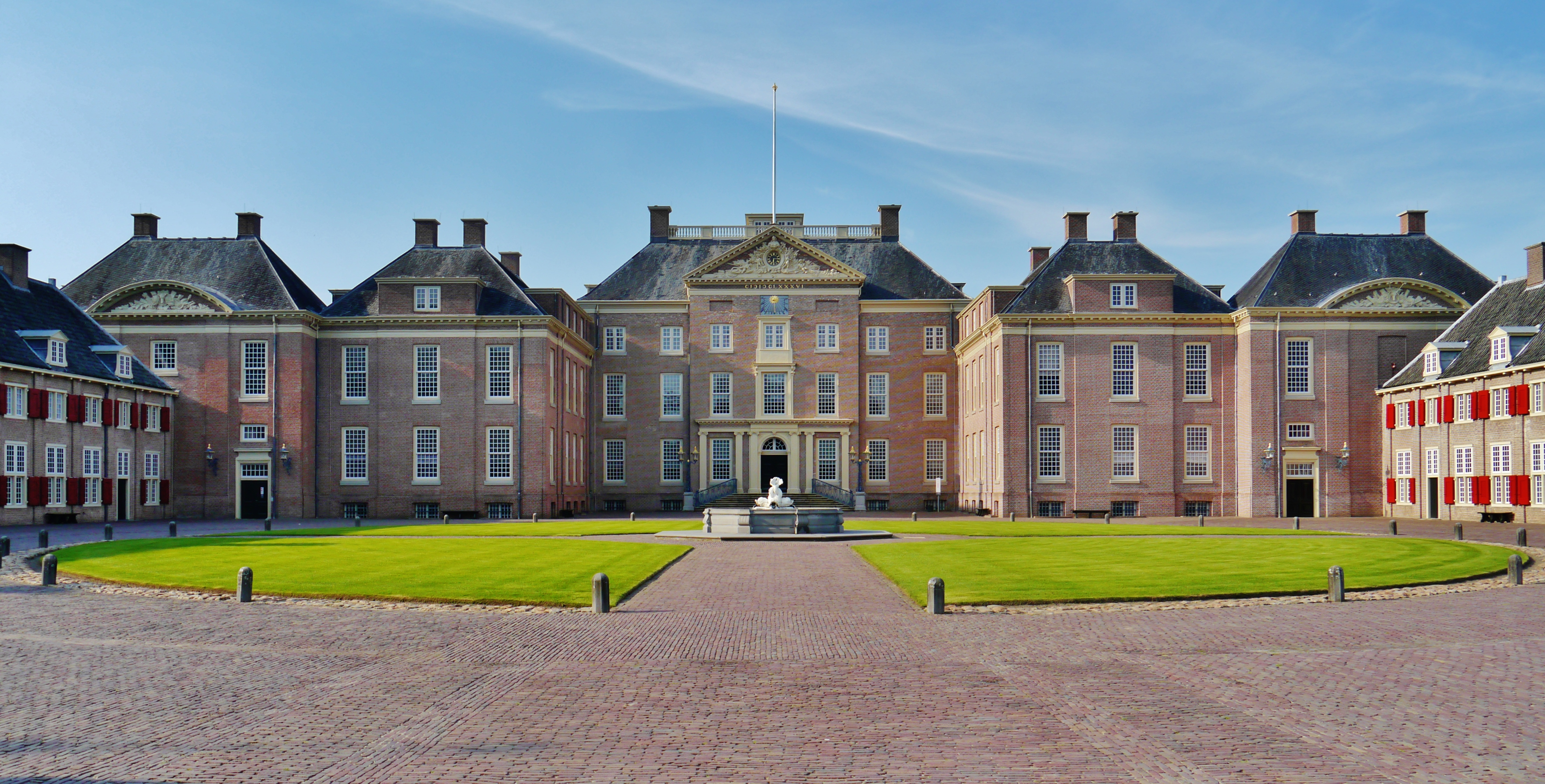 Het Loo Palace, Apeldoorn, Province Gelderland, Netherlands